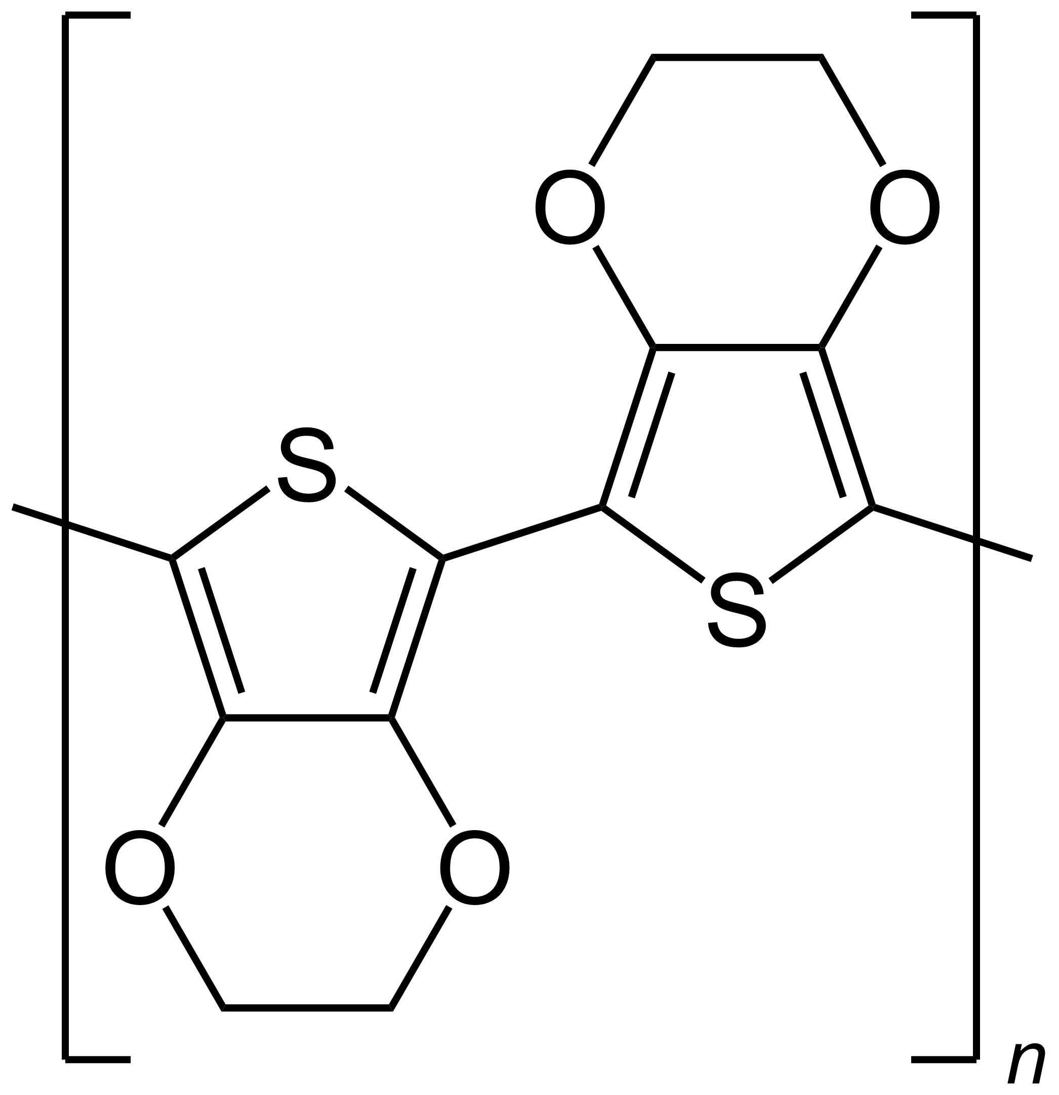 Chemical structure of PEDOT